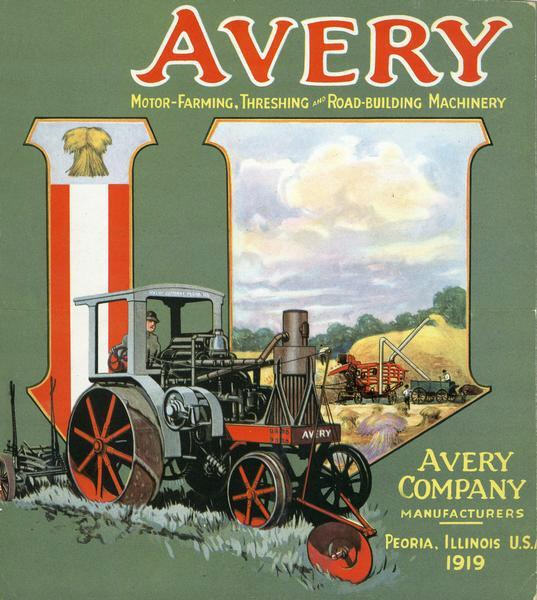 Avery Company, manufacturers of motor-farming, threshing, and road-building machinery catalog cover from 1919.